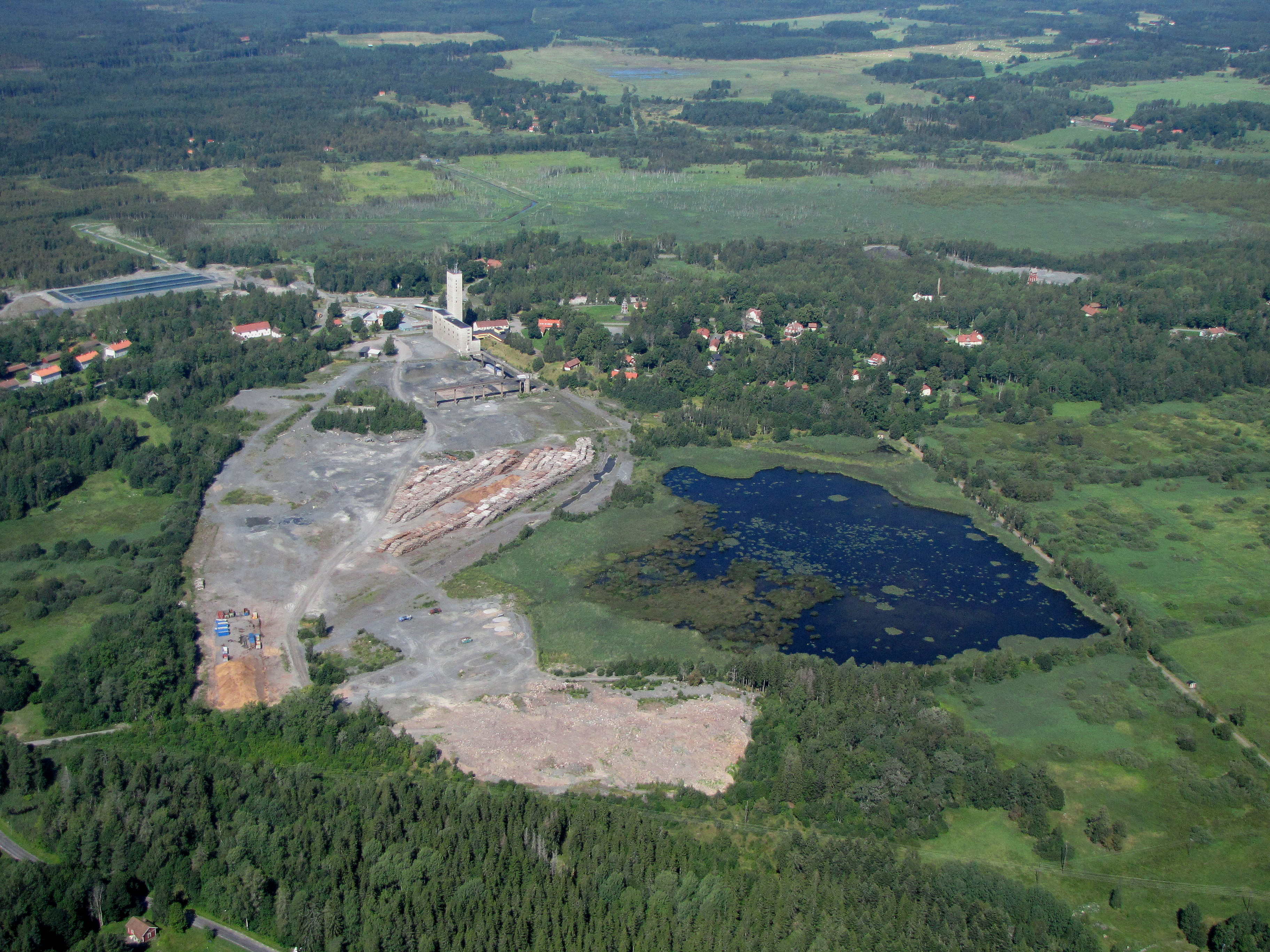 The Dannemora mining area, viewed in NW direction. The historic part is to the right of the modern concrete plant with its high tower. The old wooden bell-tower is seen on the green grass, and the light grey strip behind it is the opencast "Storrymningen". At the far right, there is an old red elevator tower among the trees.